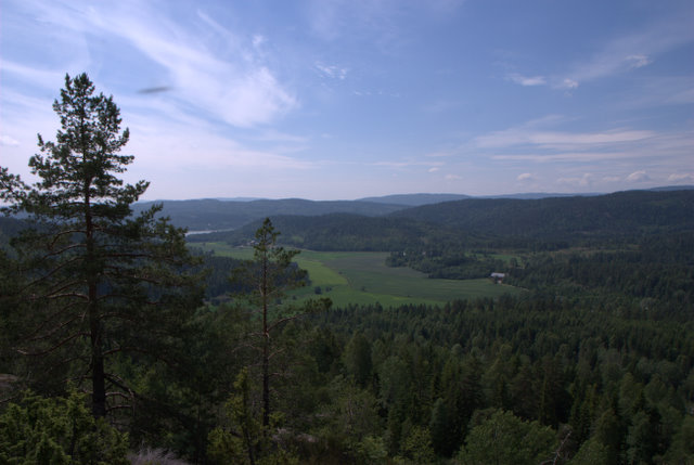 View of Hillestad in Holmestrand from Lille Hvittingen